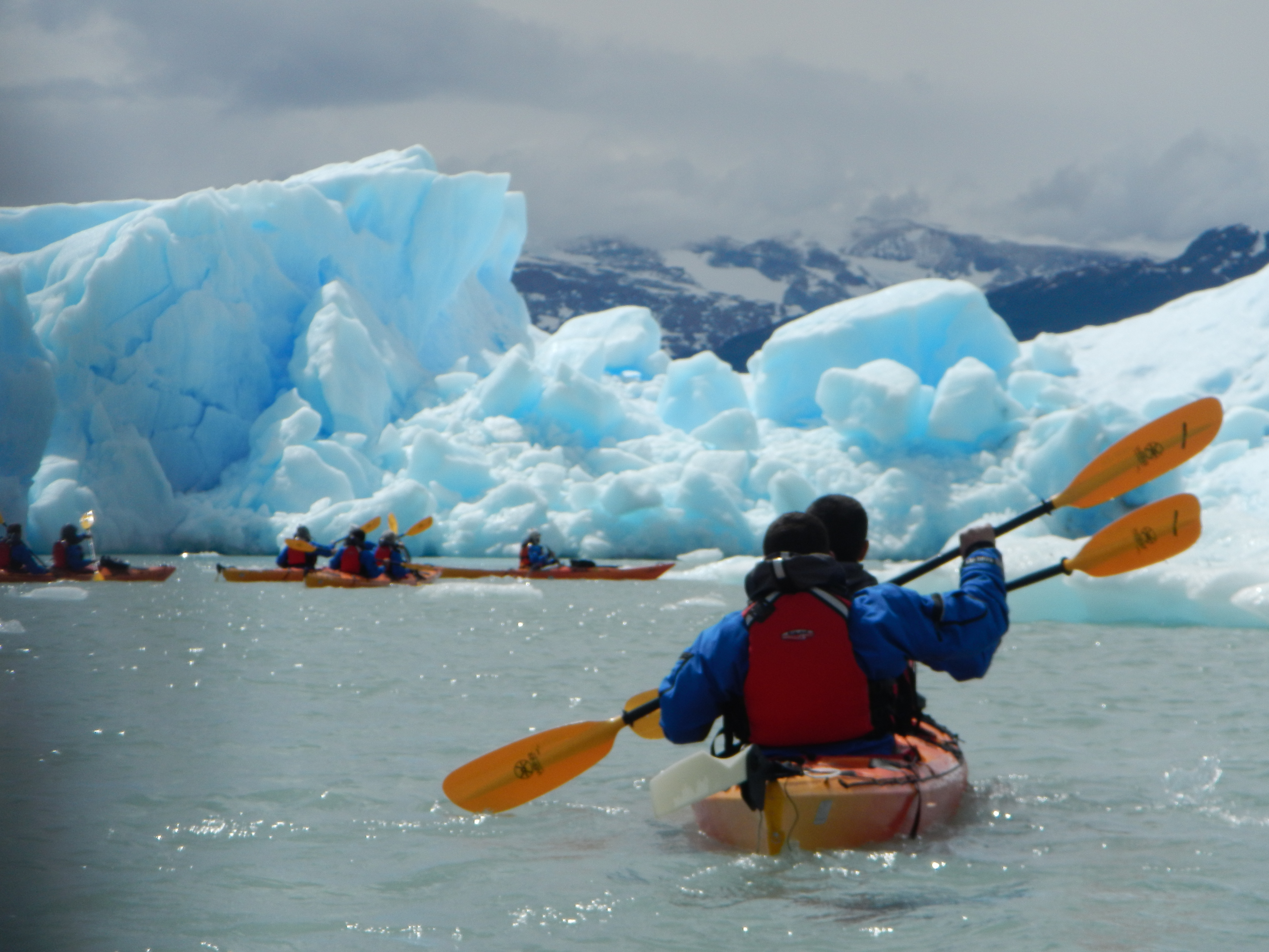 Kayaking in the Upsala Glacier in Argentina's Glaciers National Park.